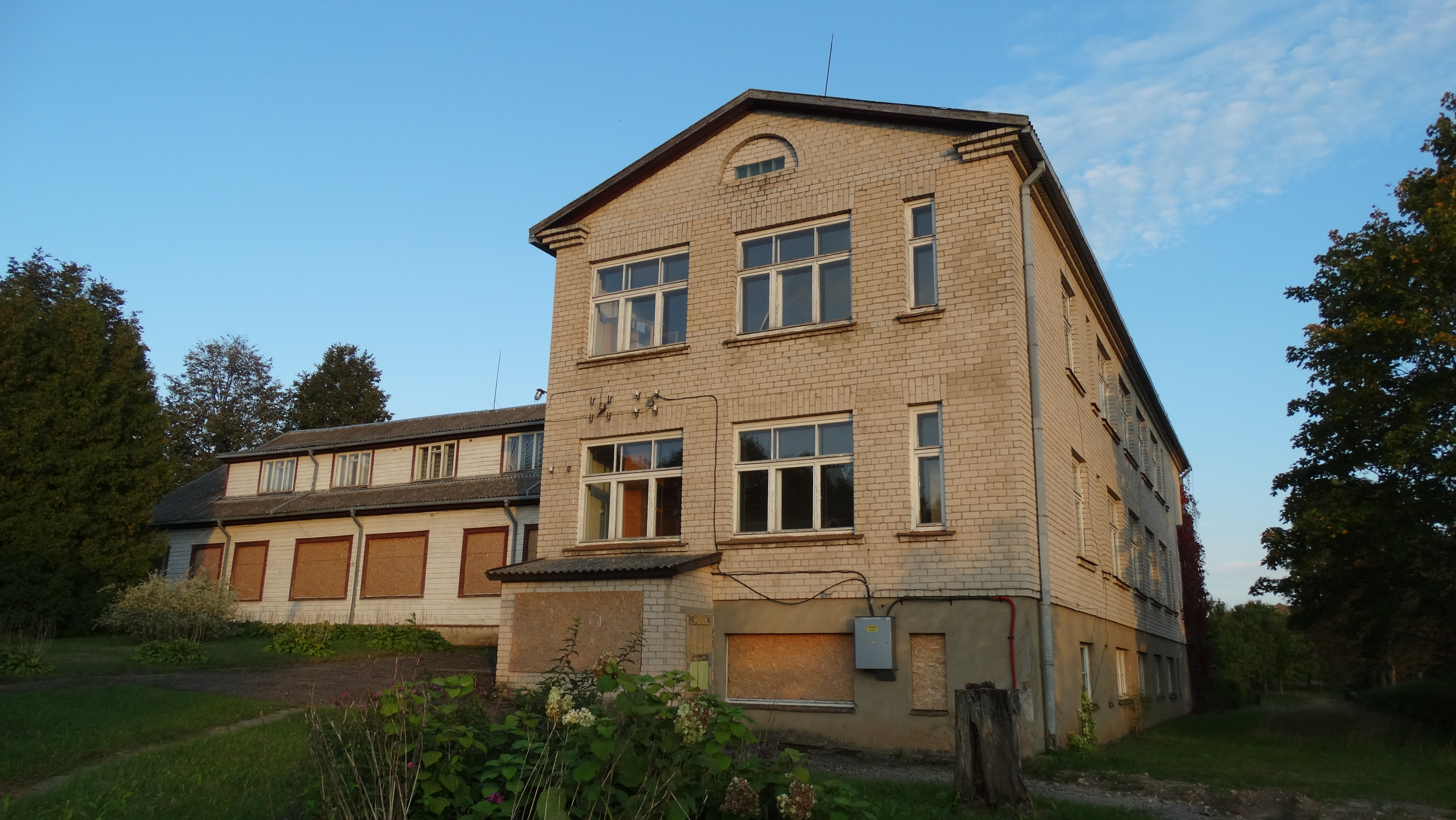 School, Degučiai, Zarasai district, Lithuania